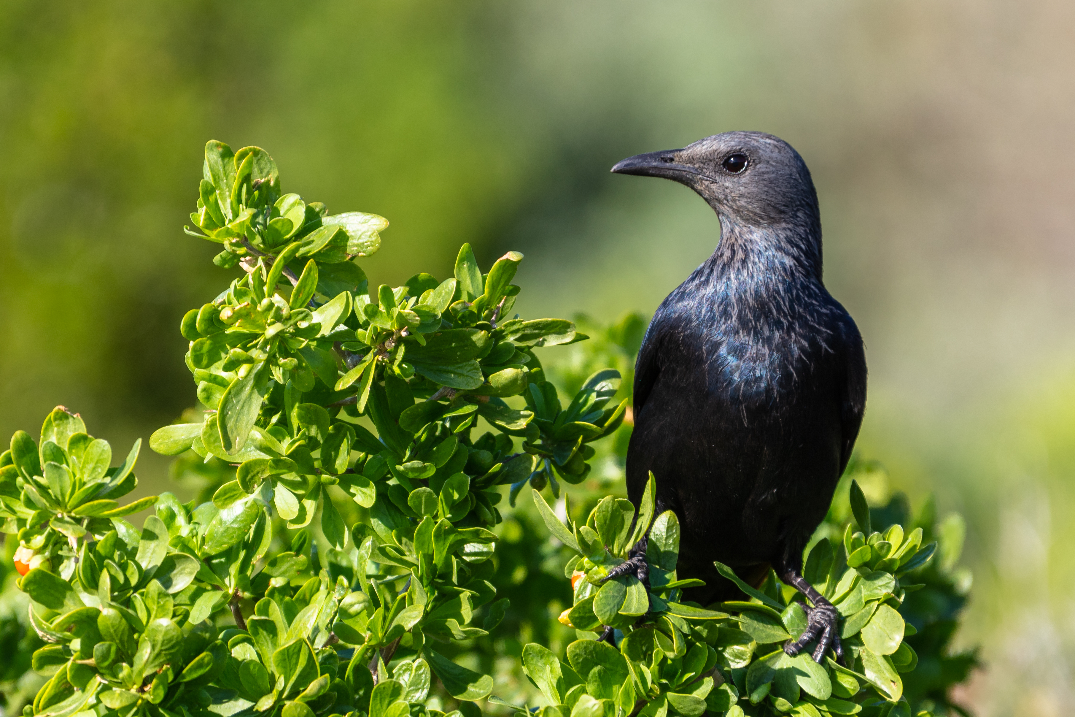 Red-winged starling (Onychognathus morio), Boulders Beach, Simon's Town, South Africa